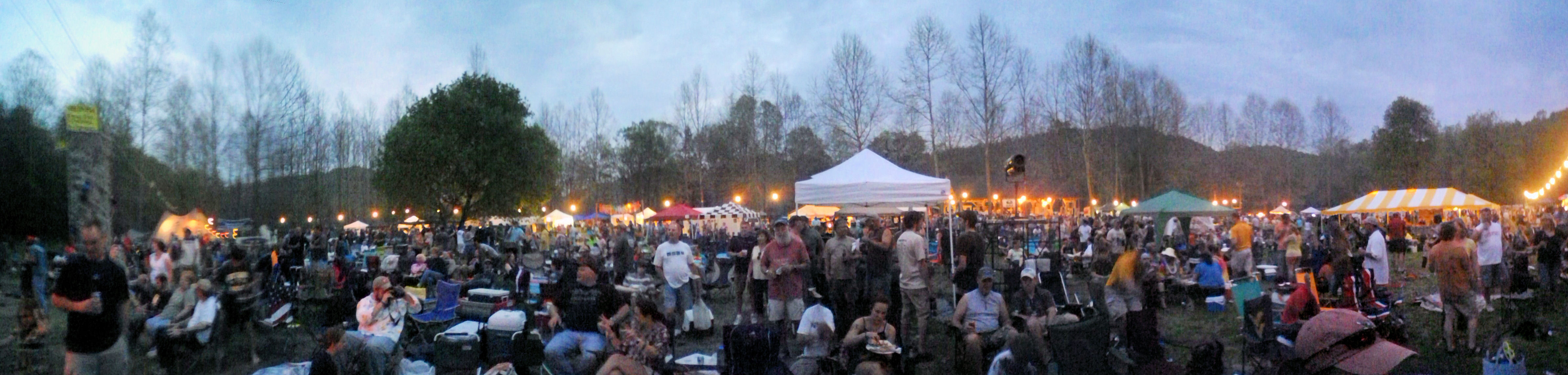 The Cheat Festival in West Virginia. Art and music with the rafting and environmental communities